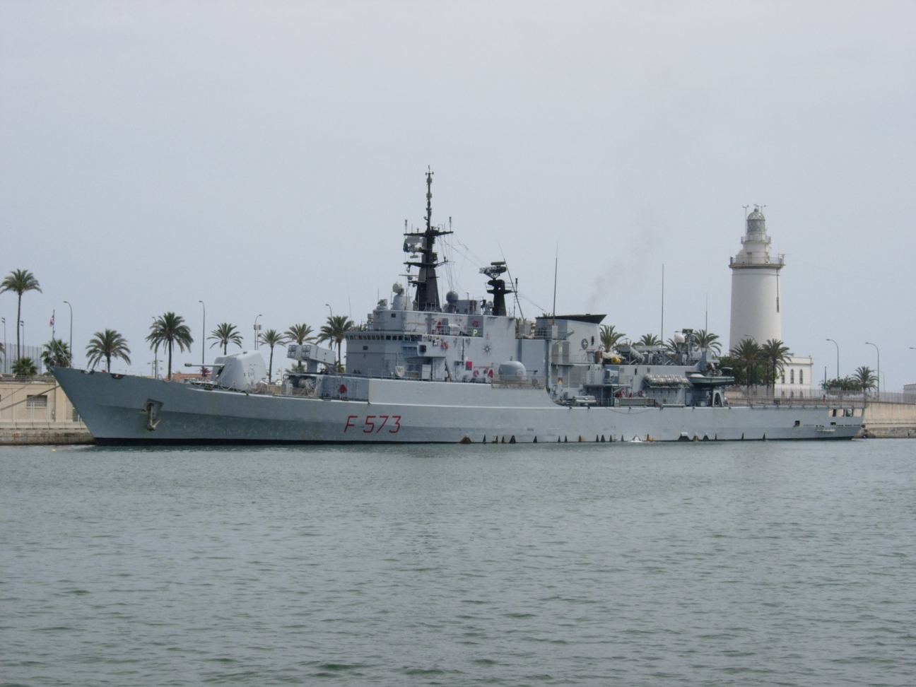 Italian frigate Scirocco in the port of Malaga